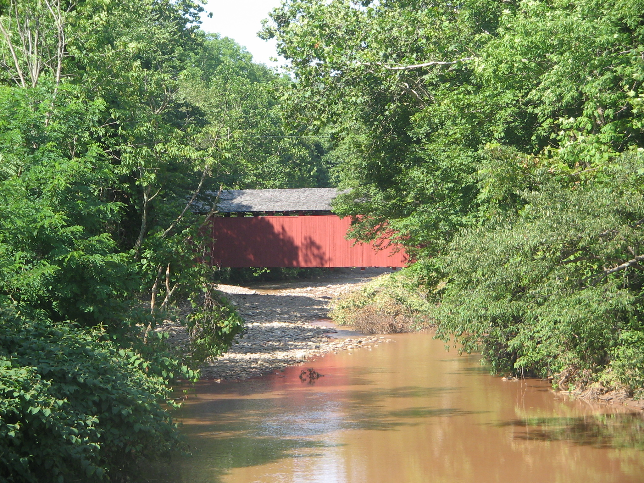 Covered Bridge over Muncy Creek along US Route 220 in Davidson Township, Sullivan County, Pennsylvania, United States.